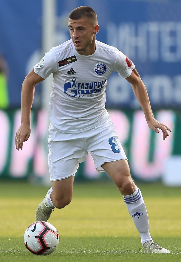 Danijel Miškić with FC Orenburg in a game against FC Dynamo Moscow.